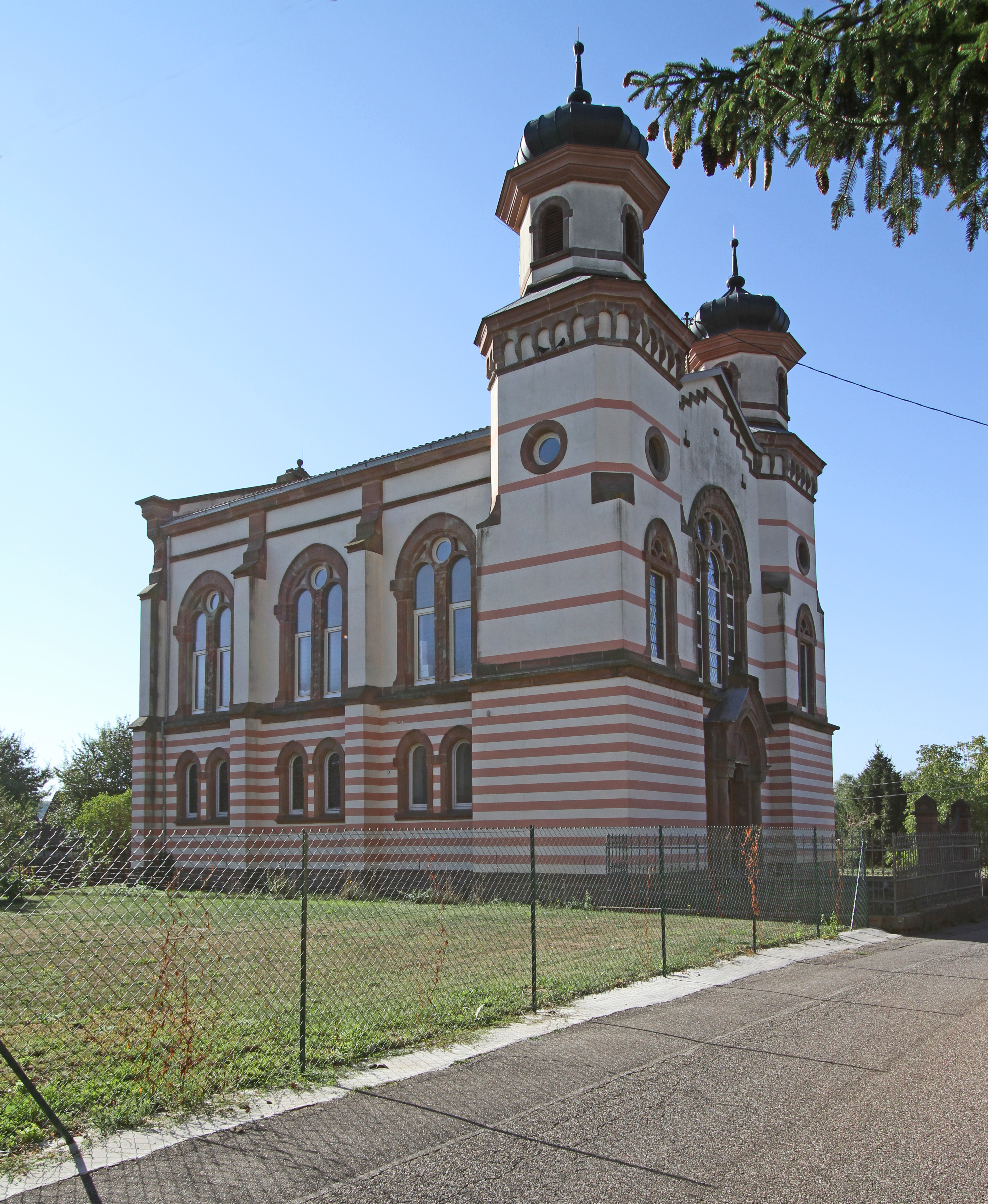 Synagogue in Soultz-sous-Forêts.